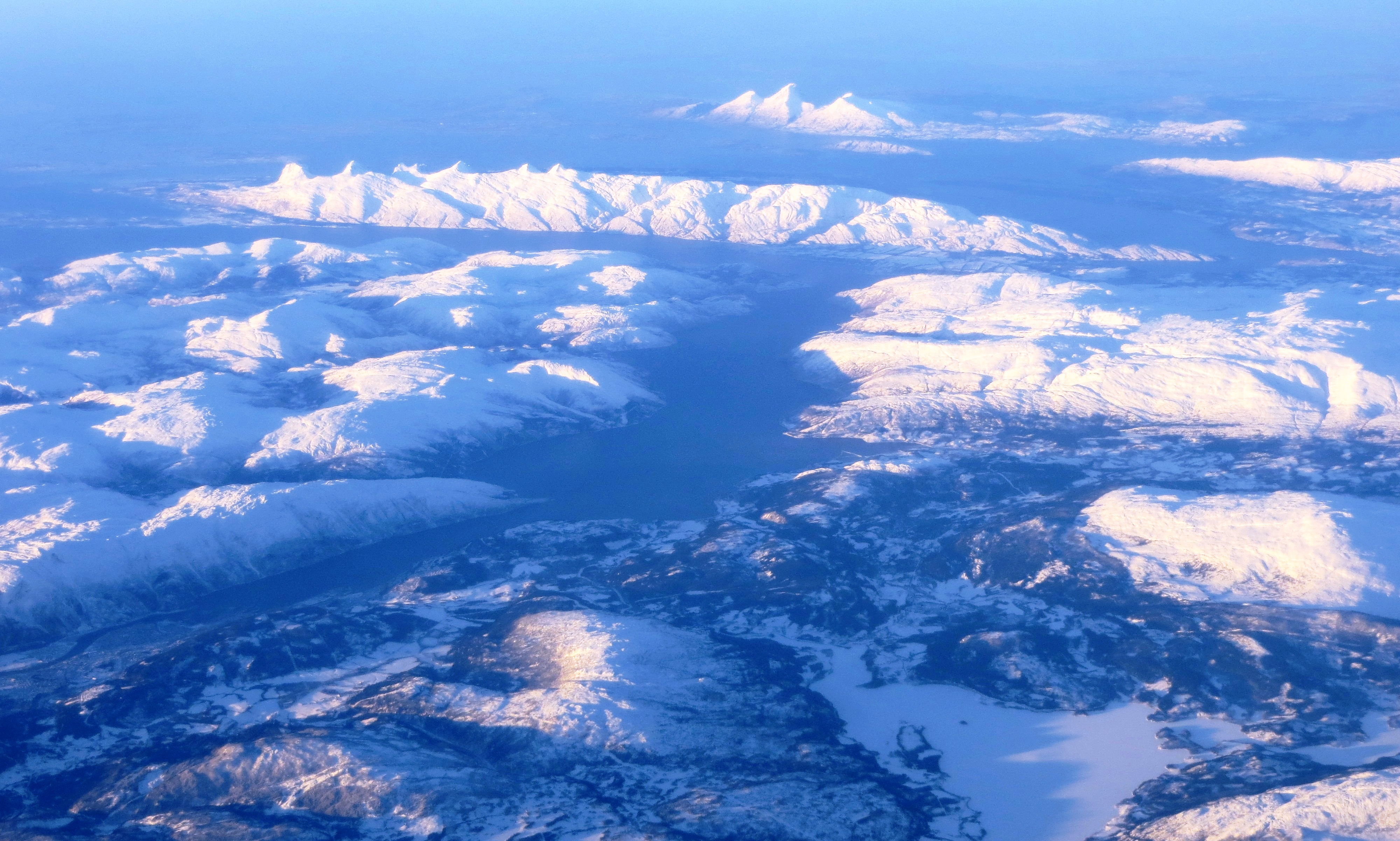 Aerial view from the east towards west, over the municipality of Alstahaug (Nordland county, Norway). The distinctive chain of"mountains along the coast in the background is the "Seven Sisters" (sju søstre). In the far background is the municipality of Dønna. In the forground is Vefsn Municipality, with the river Vefsna winding its way into the Vefsnfjorden.